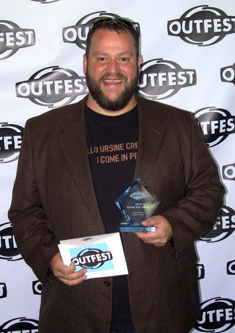 "An honest depiction of a rarely presented subculture filled with humor, heart and hair. The OutFest 2010 Grand Jury Award for Outstanding Screenplay goes to Doug Langway and Lawrence Ferber for BearCity."